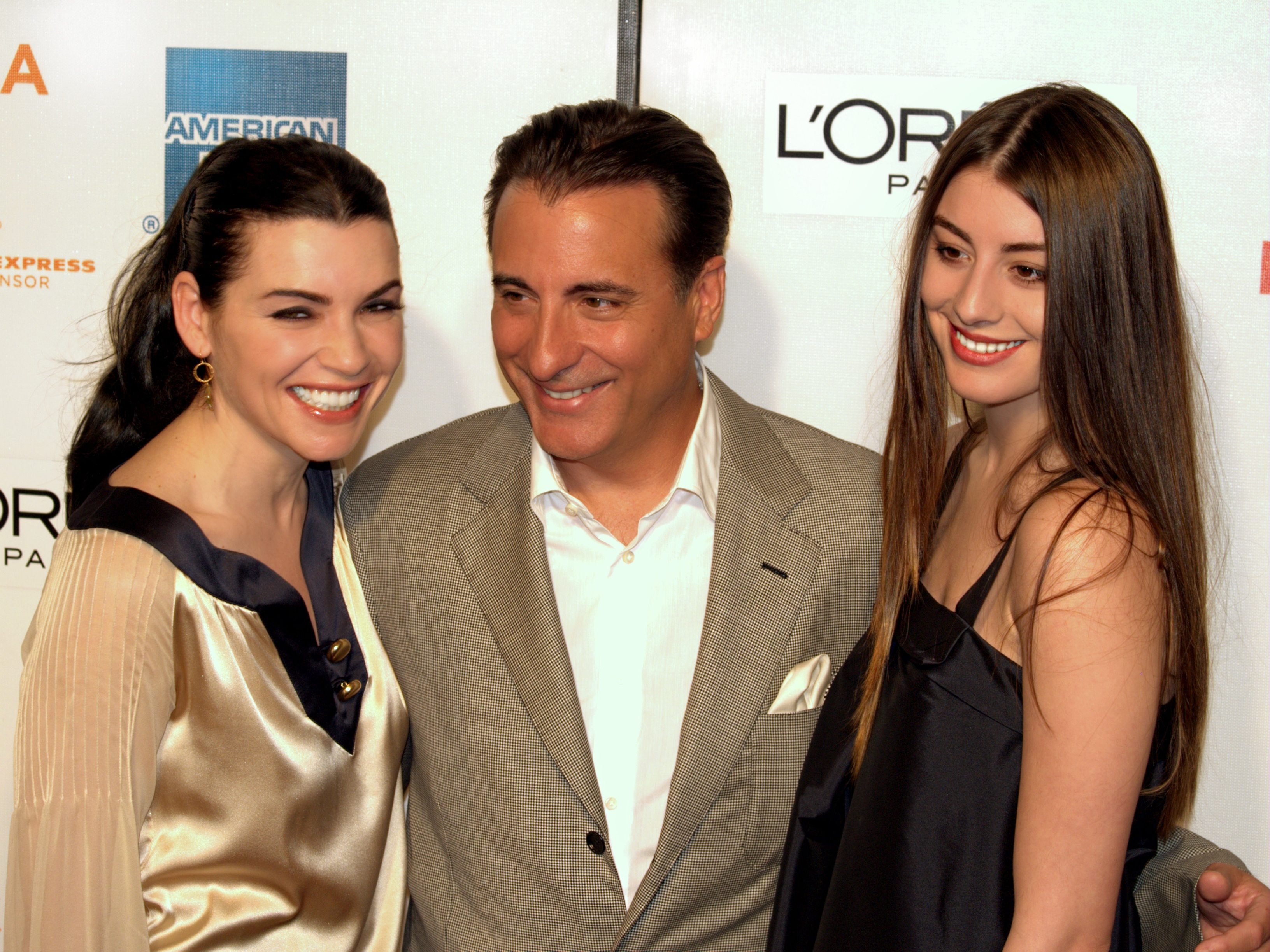 Julianna Margulies, Andy Garcia and his daughter Dominik Garcia at the 2009 Tribeca Film Festival for the premiere of City Island. Photographers blog post about the event for this photo.